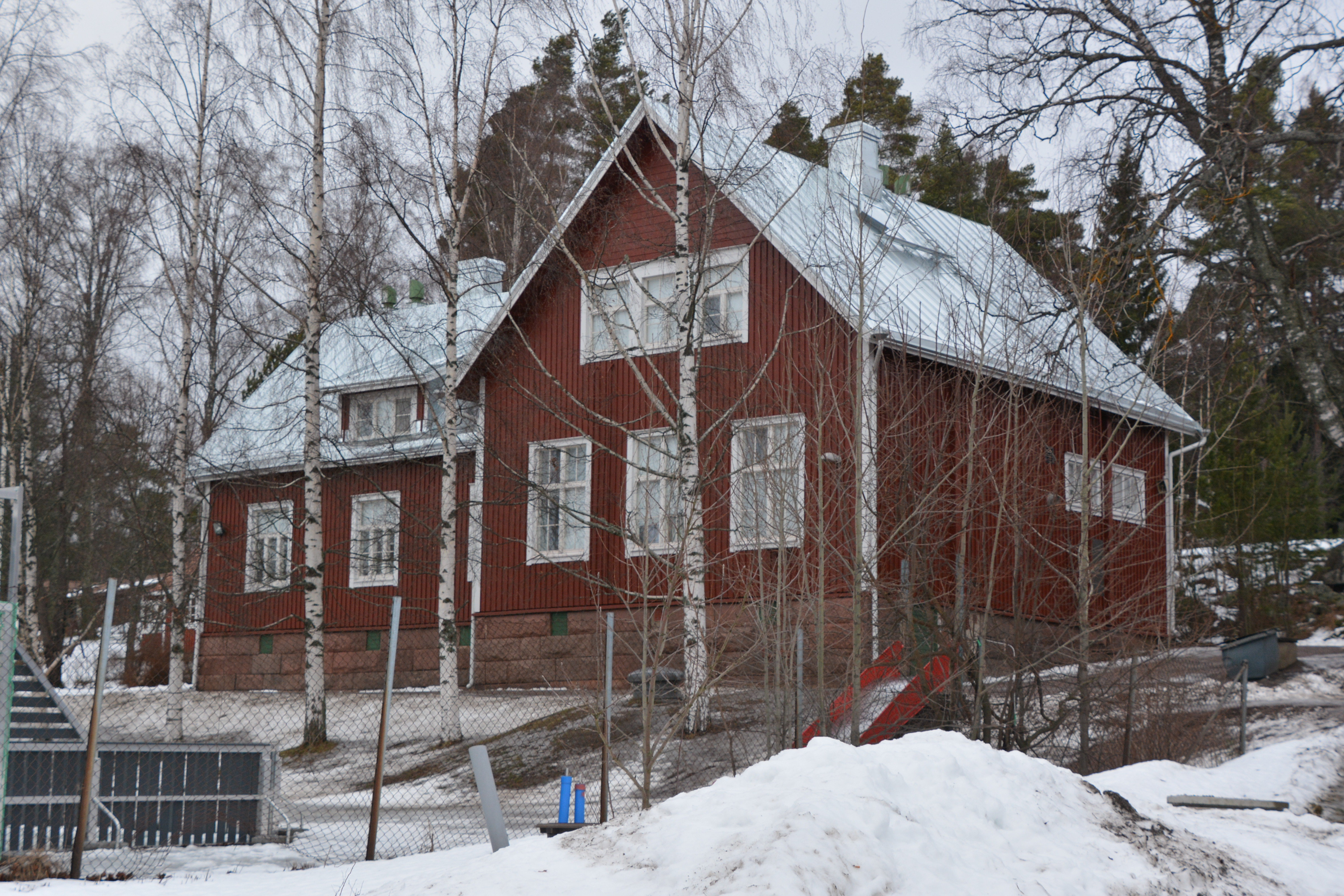 Gumbostrands skola